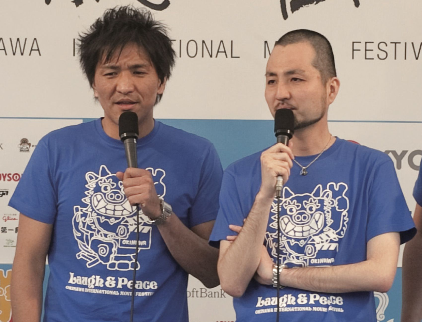 Slim Club, a Japanese comedy duo. Left:Ken Maeda, right:Masanari Uchima.